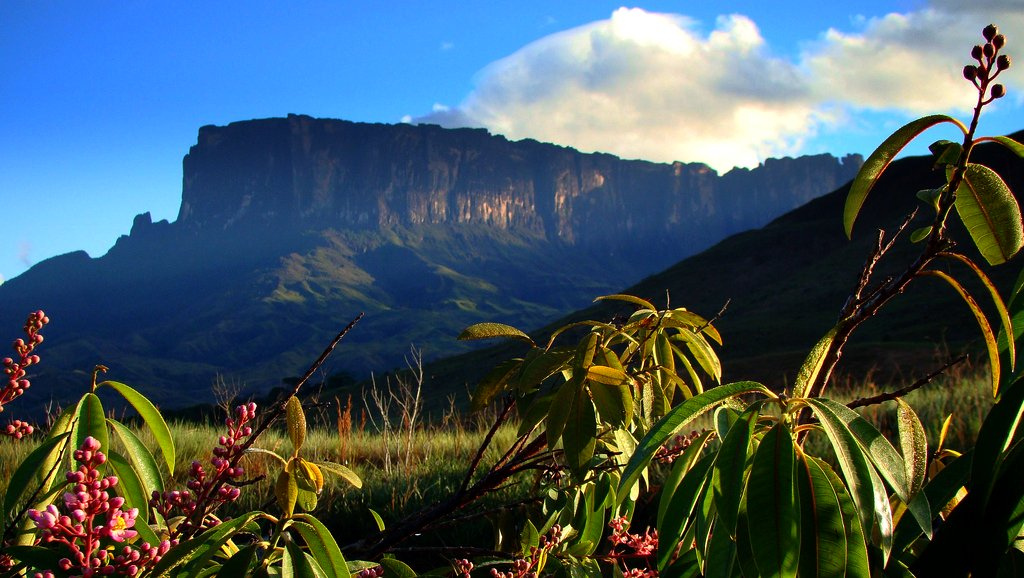 Kukenan Tepuy. Canaima National Park. Venezuela